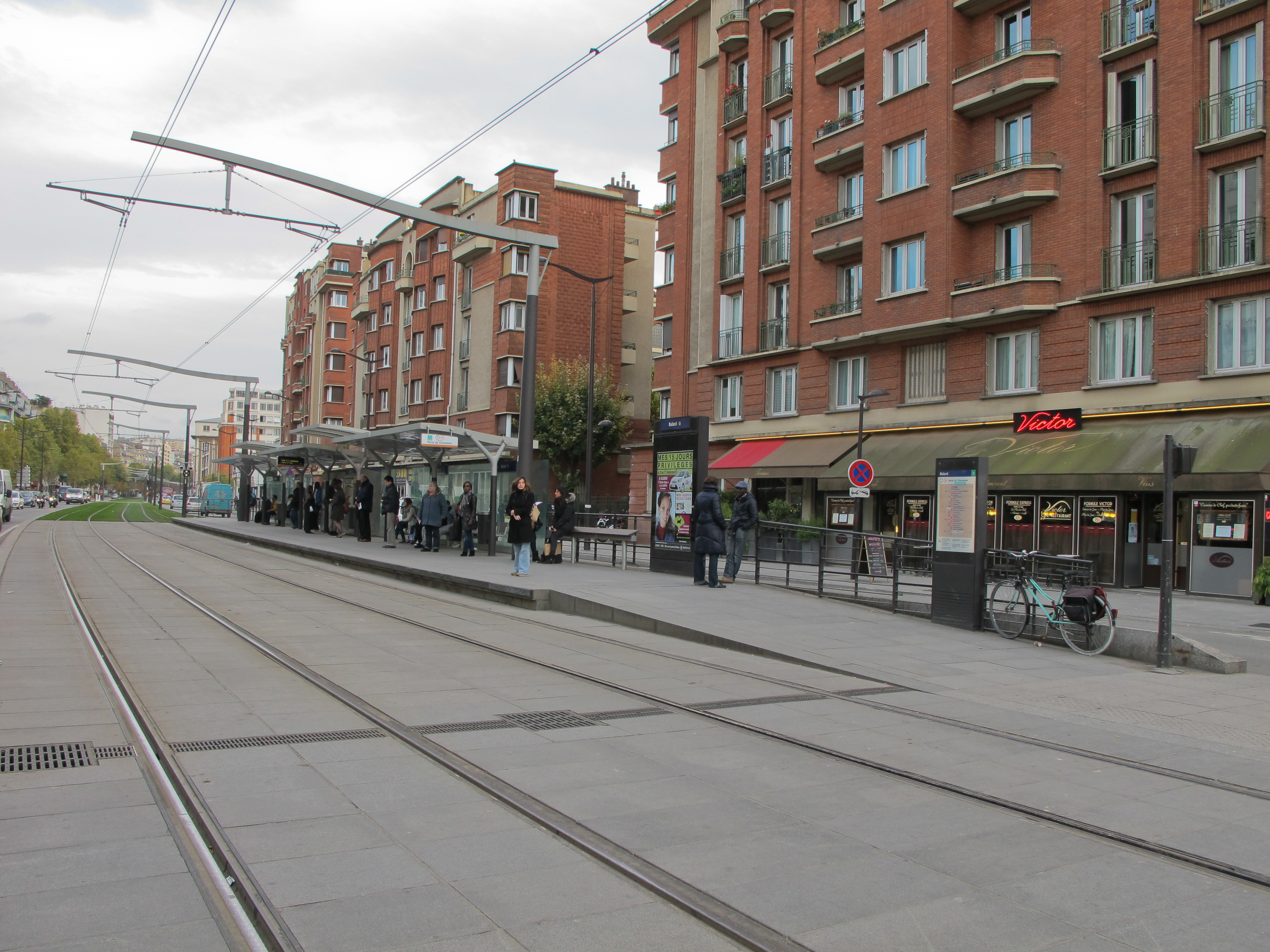 Station Balard, Ligne T3a du tramway de Päris - Paris, France